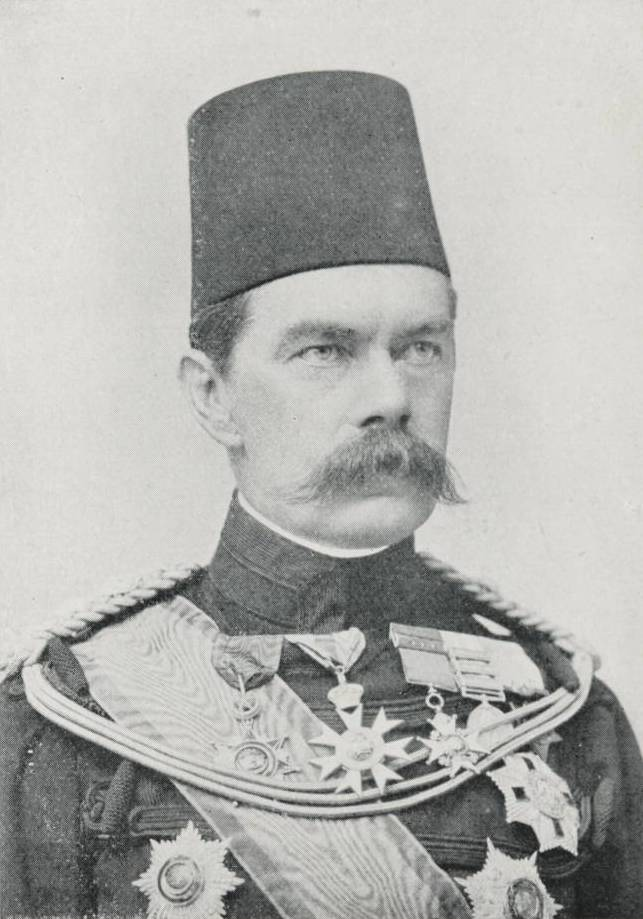 Portrait of Horatio Herbert Kitchener (1850–1916). Lord Kitchener was the Sirdar of the Egyptian Army from 1892 to 1899, and is seen here in full military dress wearing a traditional Egyptian tarboosh.